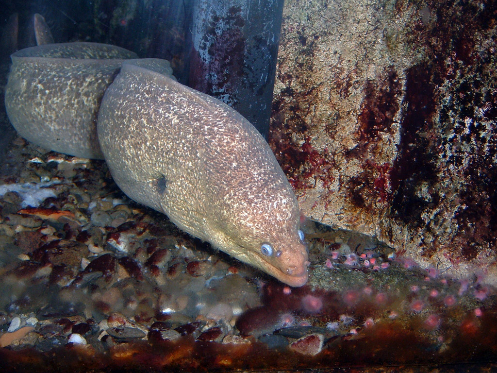 California Moray Eel Taken by Jeremy Selan Santa Monica Pier Aquarium Santa Monica, CA 12/3/06